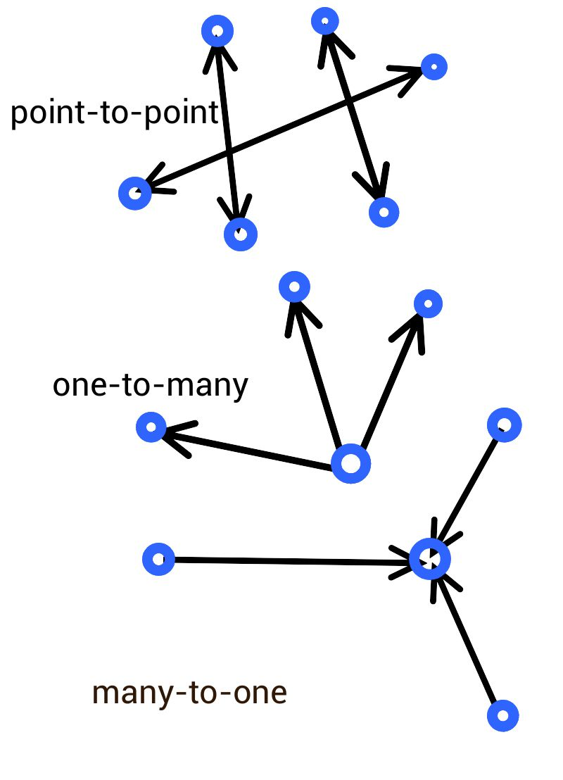 The three general types of channels found in wireless networks.